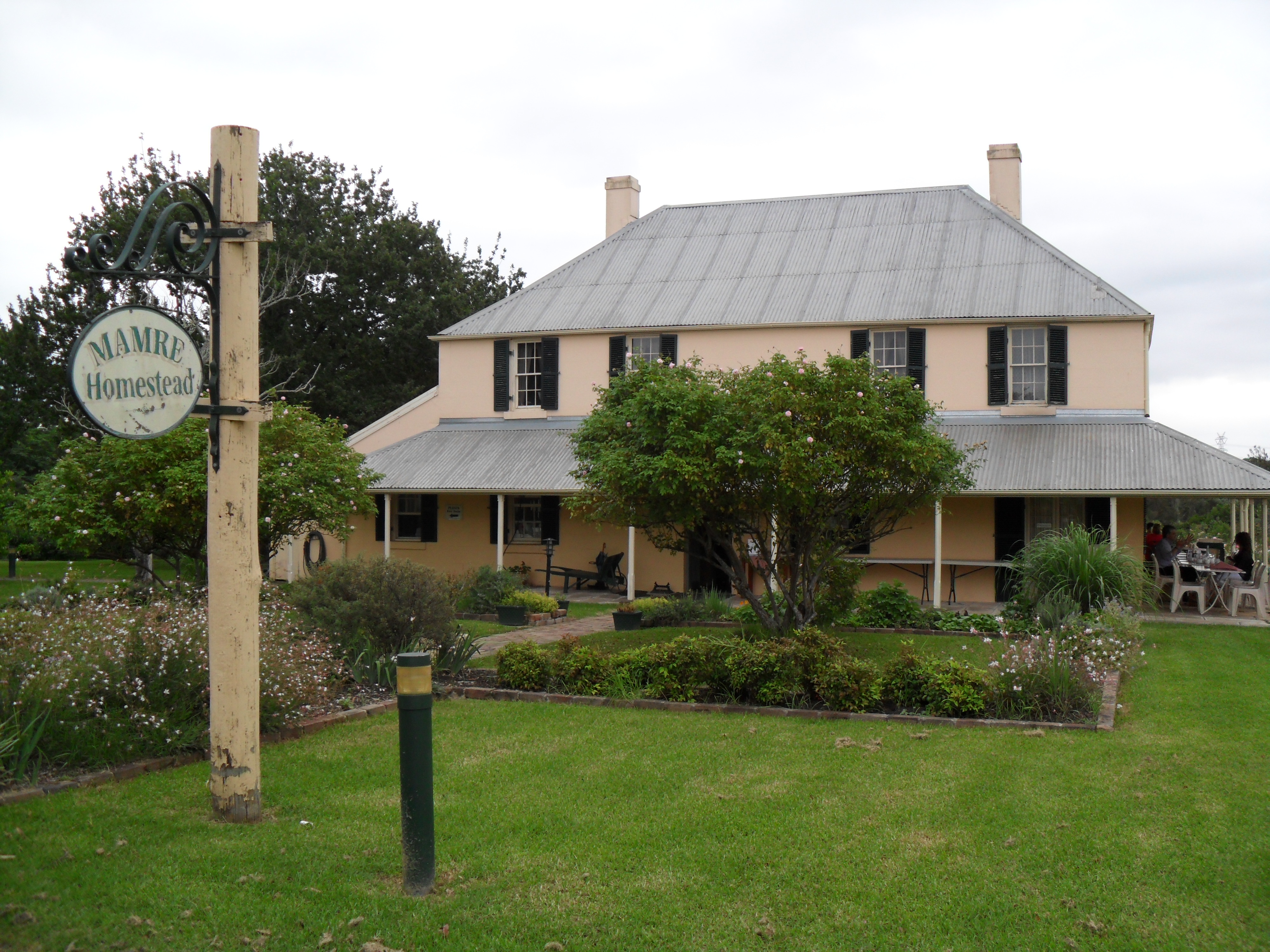 Mamre, 181 Mamre Rd, Orchard Hills NSW, Australia